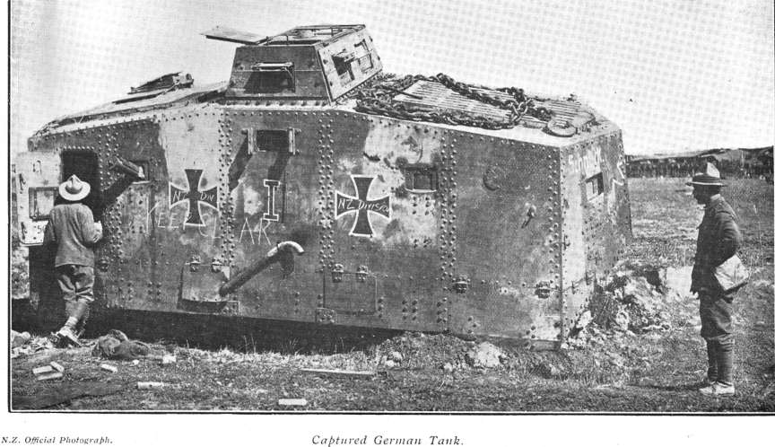 Byrne, A. E. (1921), Official History Of The Otago Regiment in The Great War 1914-1918, J. Wilkie & Company